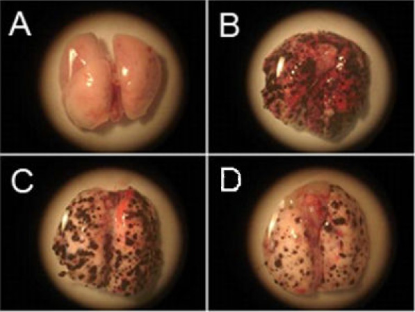 Lung metastasis in C57BL/6 mice induced from B16F10 tail vein injection. Figure A: Normal lung. Figure B, C and D: A mouse with B16F10 lung metastasis, untreated, vehicle treated or M8 treated, respectively. a = normal lung; b = untreated lung with B16F10 metastasis; c = lung with B16F10 metastasis treated with vehicle; d = lung with B16F10 metastasis treated with M8.